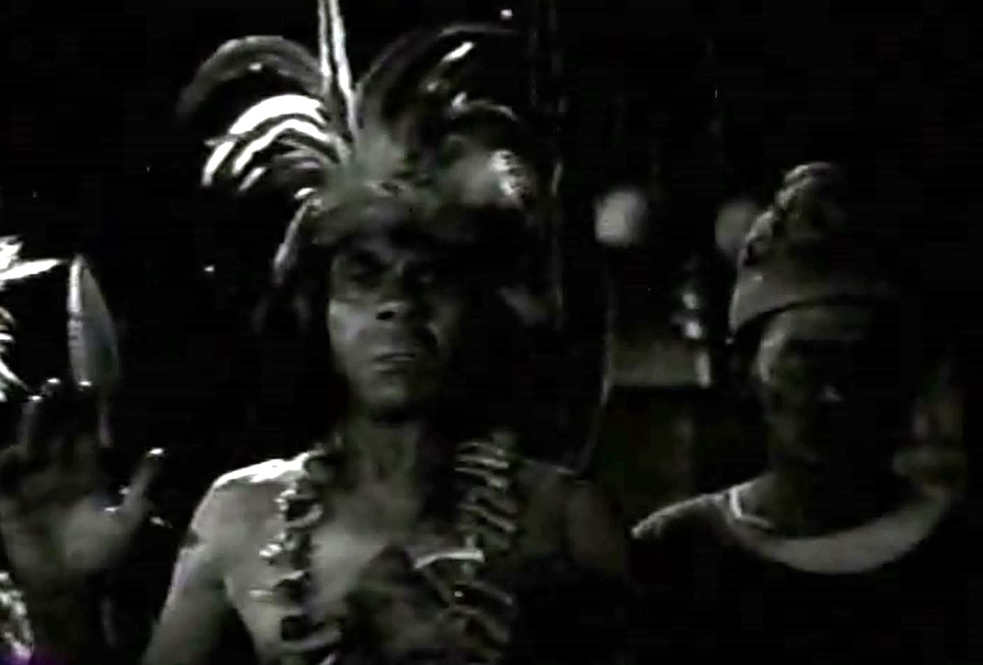 Low resolution screenshot of an uncredited Frank Lanning in makeup portraying the Witch Doctor in the American public domain film serial Tarzan the Tiger (1929).